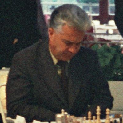 Mato Damjanovic, Dortmunder Schachtage 1974, Photographer Gerhard Hund.